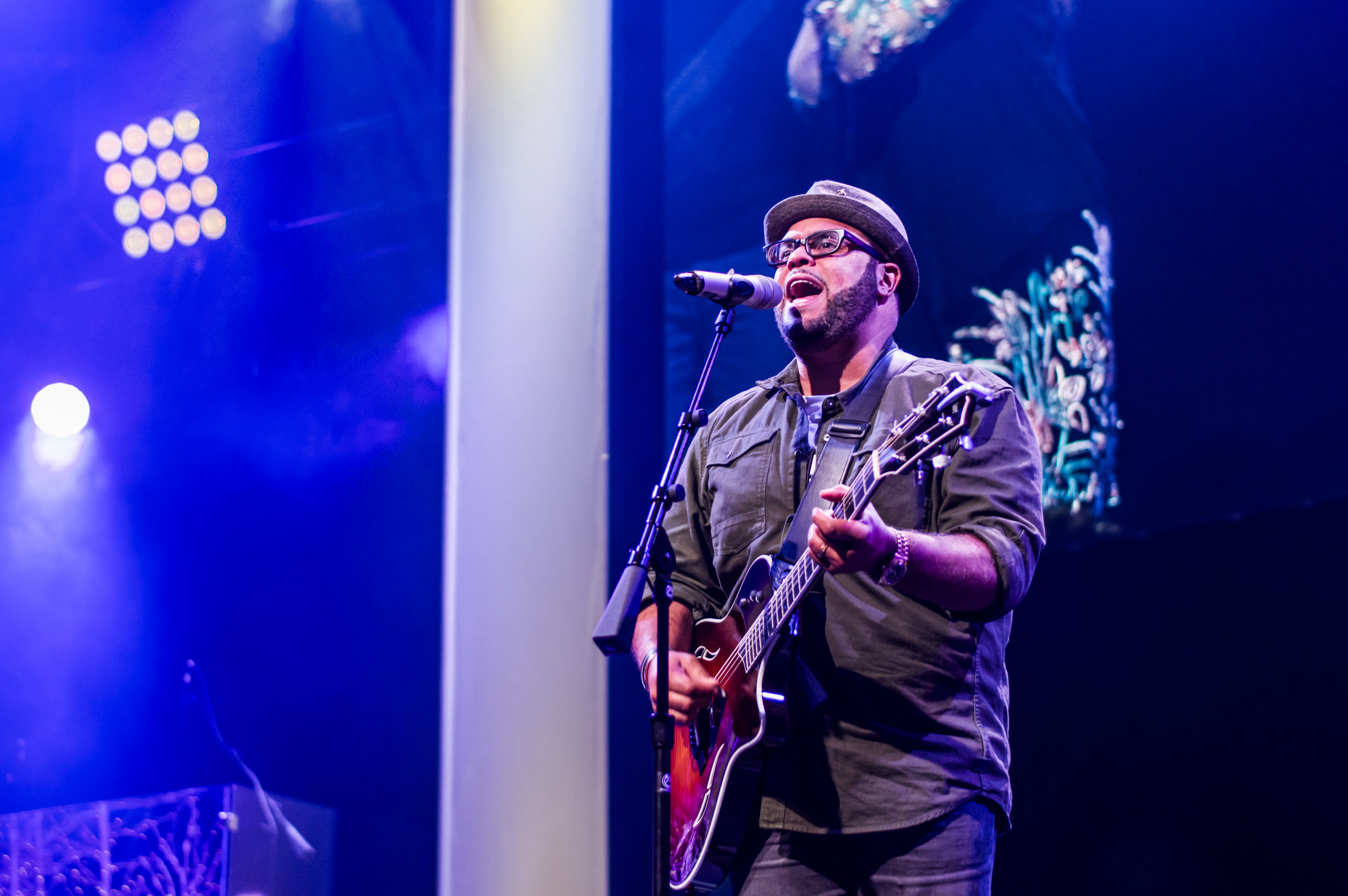 Photo taken by Sam Panasyuk. Taken at Free Chapel Church in Suwanee, GA.